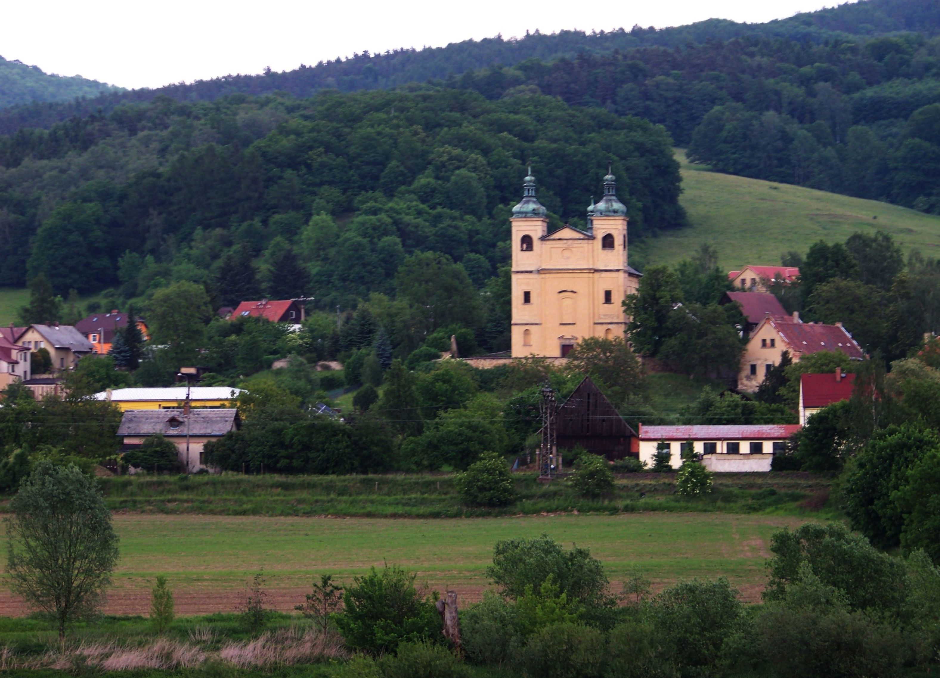 Děčín XXXIII-Nebočady, Děčín District, Ústí nad Labem Region, the Czech Republic. Saint Lawrence church, a view from the train to Děčín. - OpenStreetMap (Info)